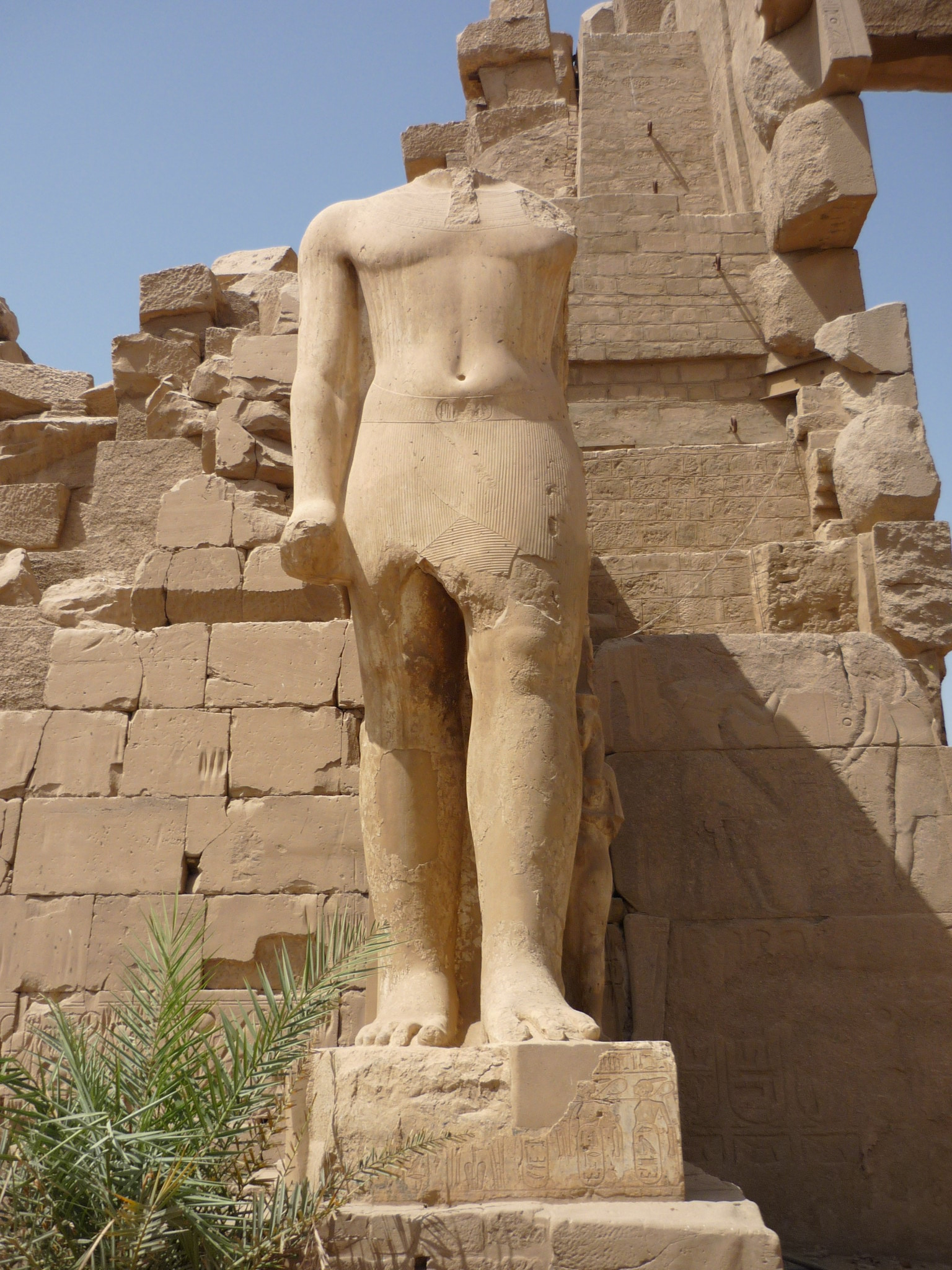 Statue near tenth pylon (Ramses II or Horemheb), Karnak temple of Amun-Ra, Egypt